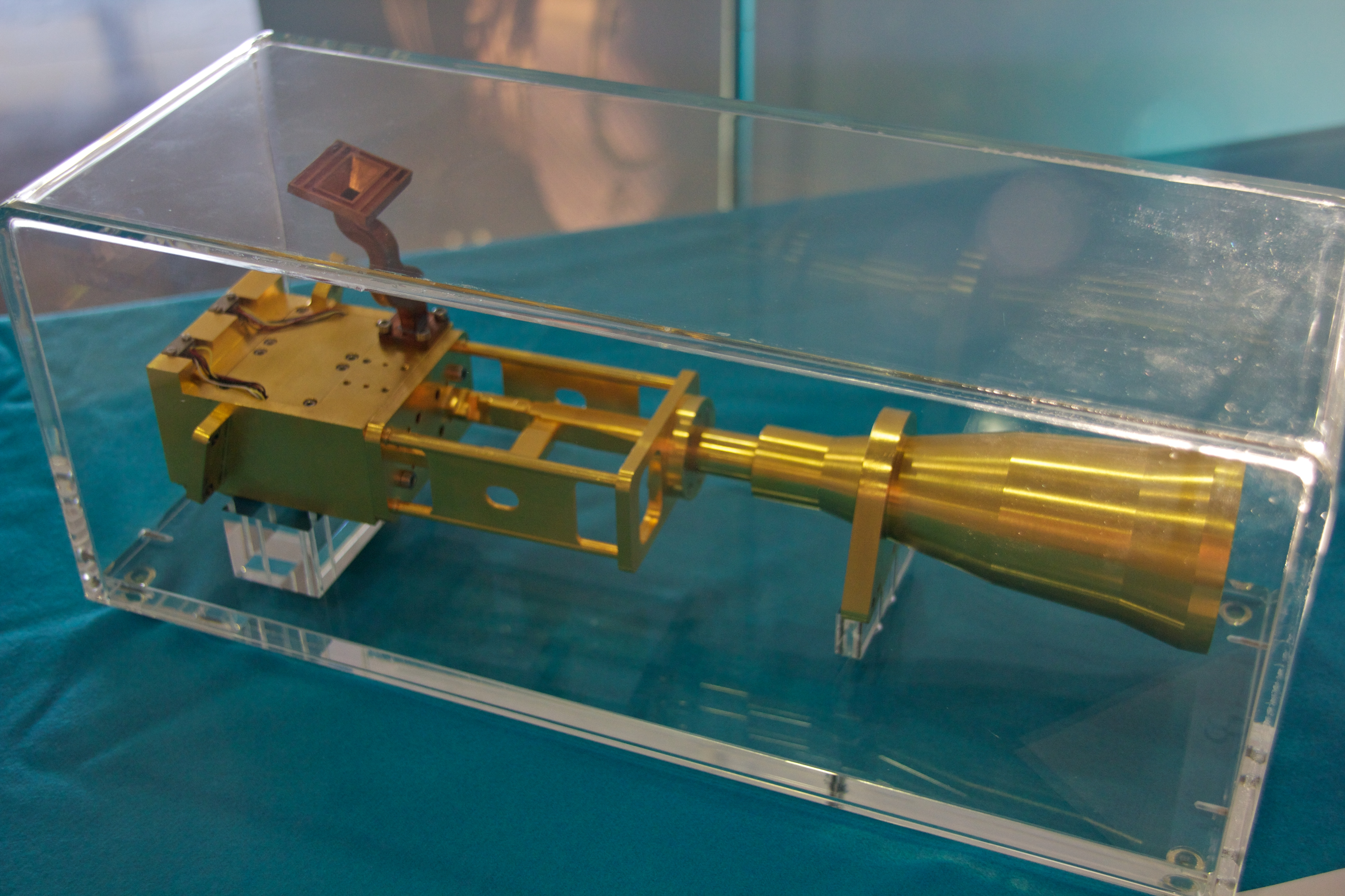 Planck LFI 44GHz horn and front end chassis.